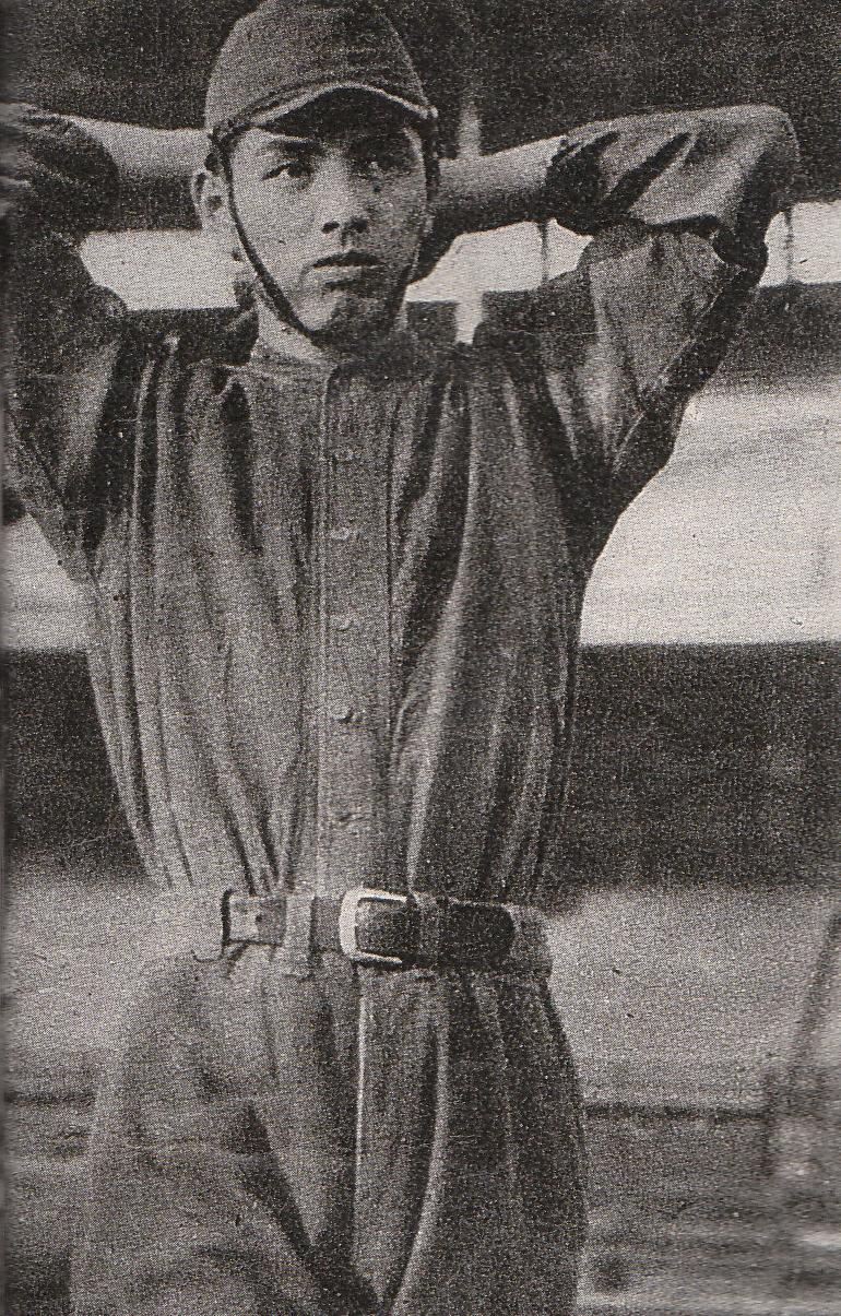 A professional baseball player from Japan, Masaaki Noguchi(This Nagoya professional baseball team on the register time in 1943).